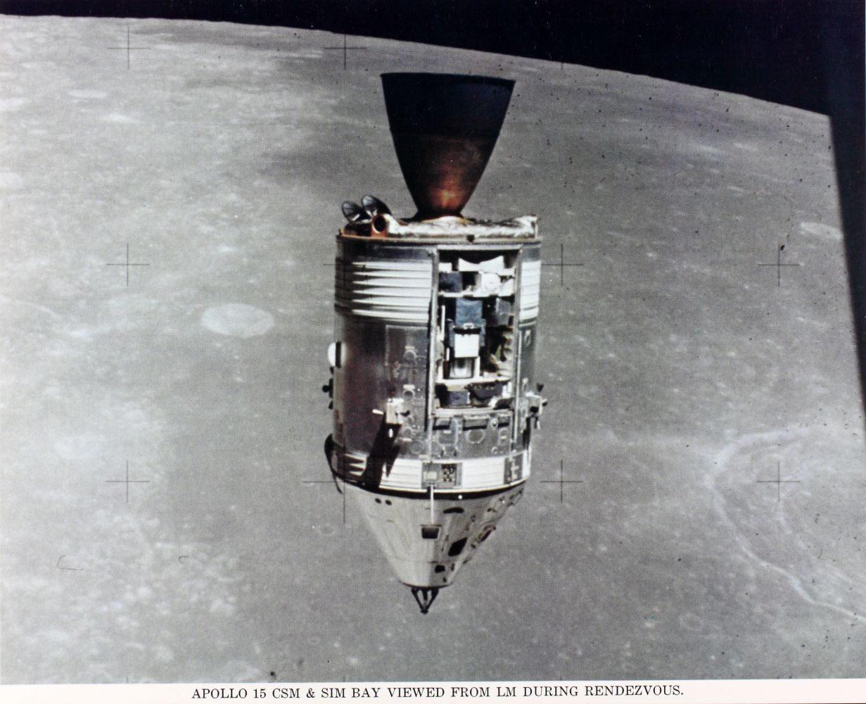 SDASM.CATALOG: 08_001918 FILE NAME: 08_01918 SDASM.TITLE: Apollo 15 CSM SDASM.ADDITIONAL INFO: Sim Bay Viewed from LM during rendezvous SDASM.MEDIA: Glossy Photo SDASM.DIGITIZED: Yes SDASM.SOCIAL MEDIA: SDASM.TAGS: Apollo 15 CSM PUBLIC COMMONS.SOURCE INSTITUTION: San Diego Air and Space Museum Archive